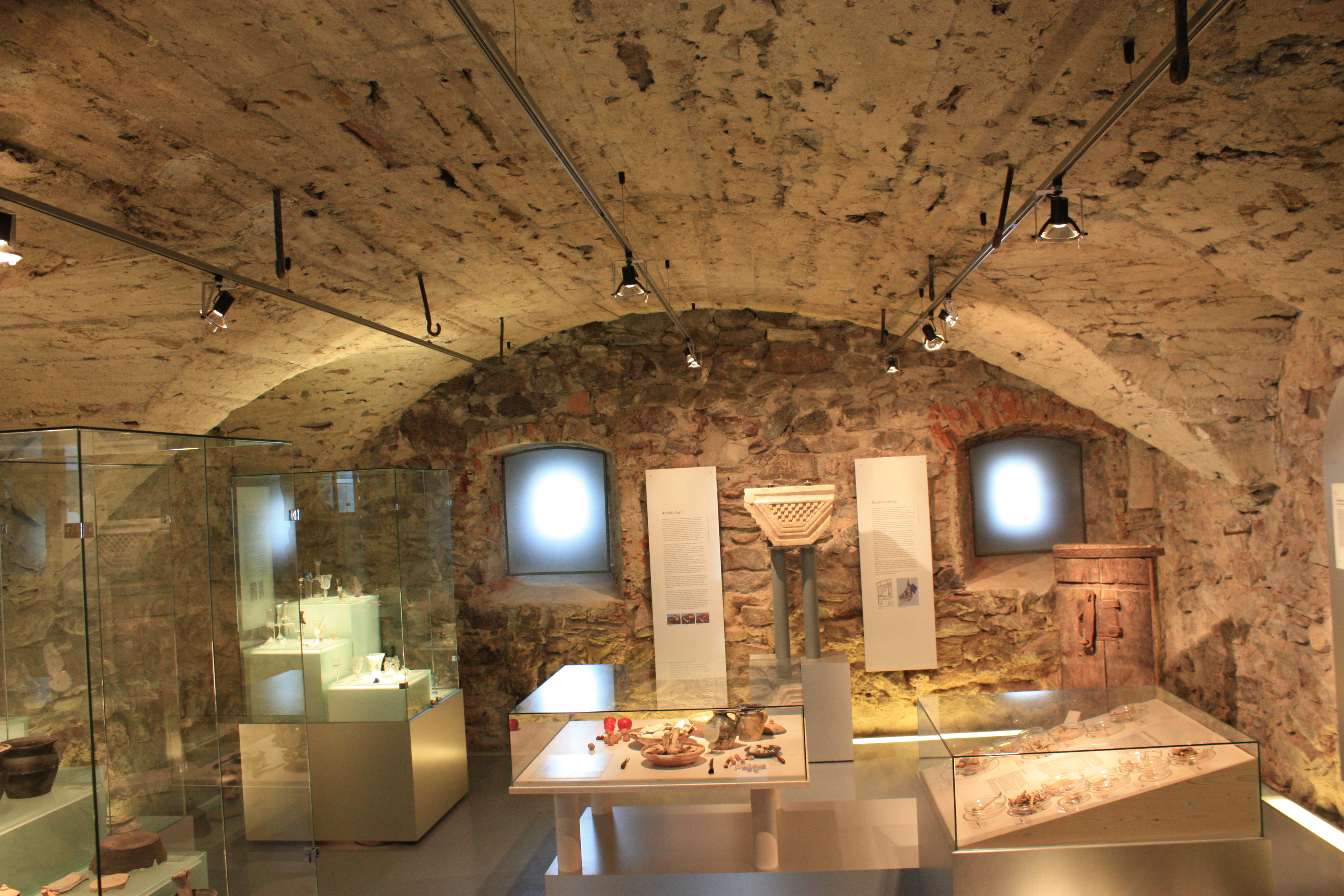 Villach-castle - museum Locality: Burgplatz Community:Villach